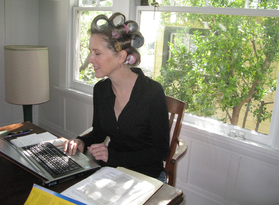 Mary Roach in rollers